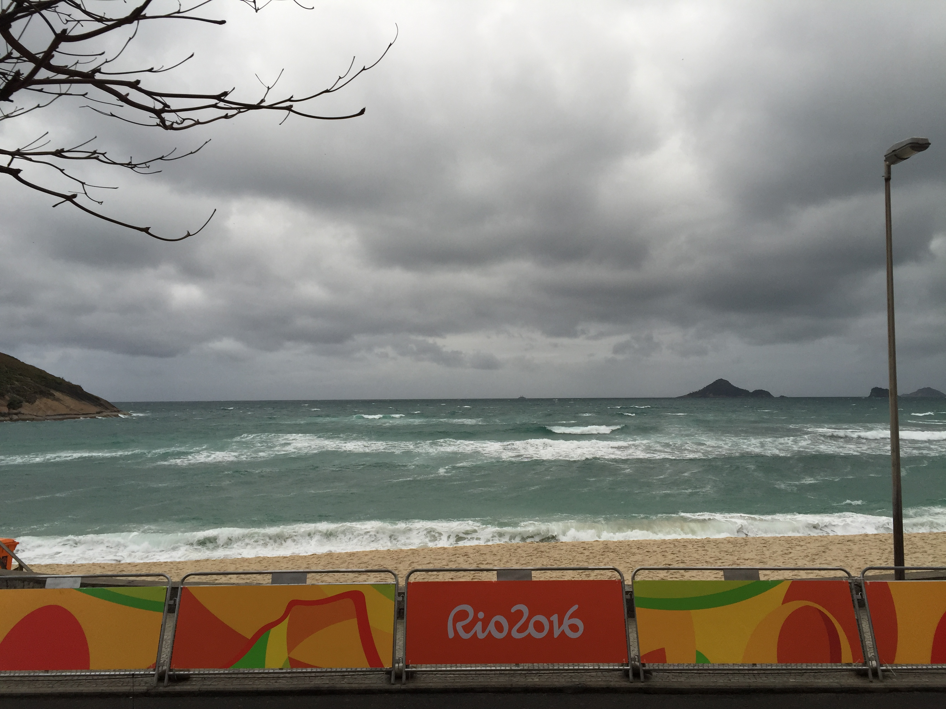 Rio 2016 - Women's time trial 10 August (CR003)